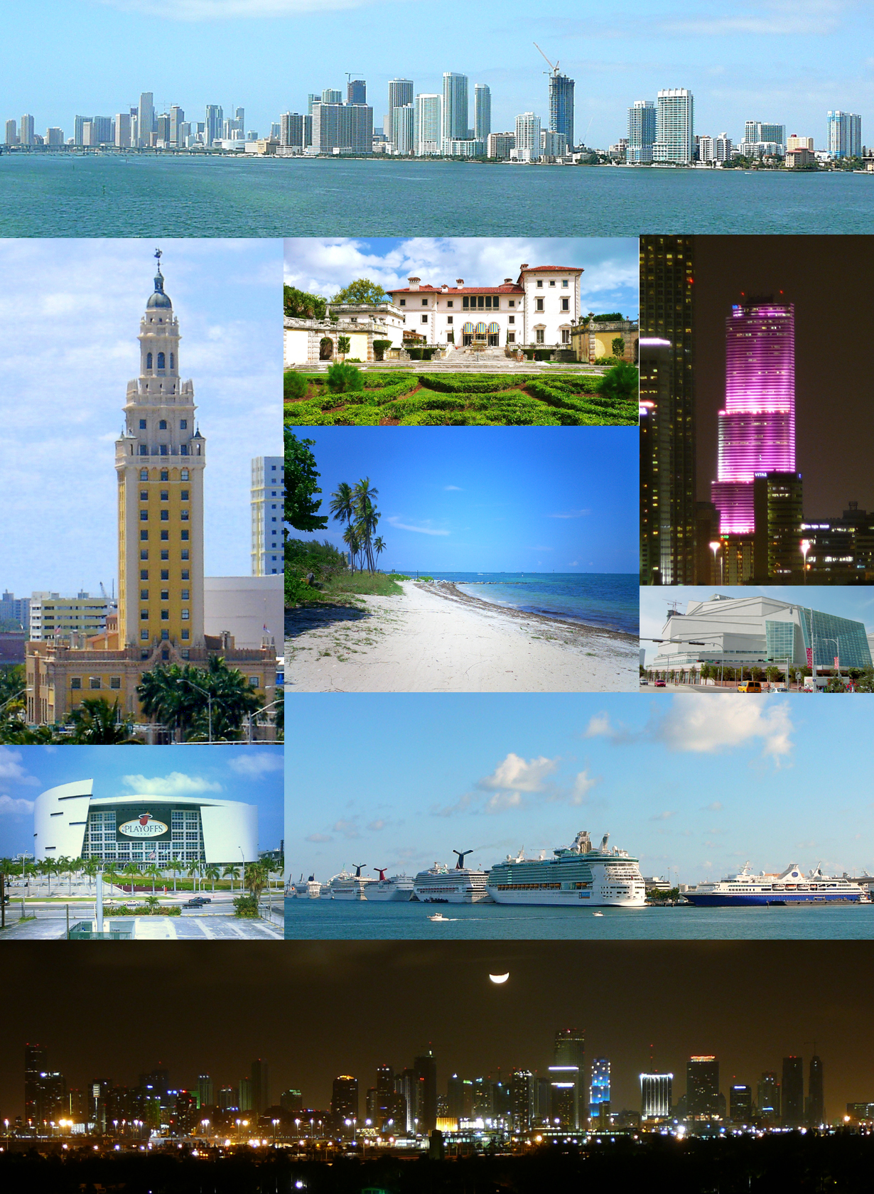 Collage of digital photos taken by Marc Averette. Within the city of Miami, Florida, United States.